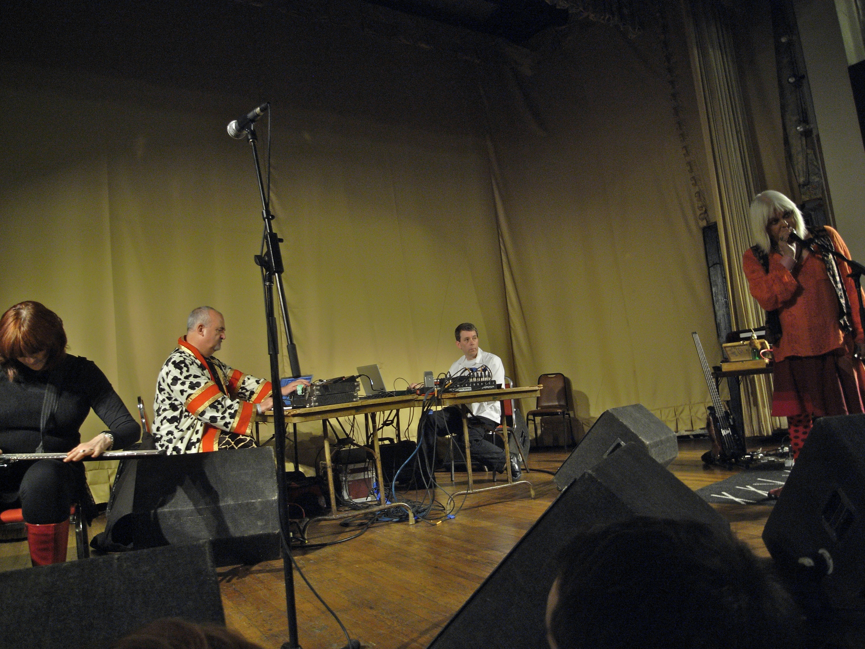 Throbbing Gristle in New York, 2009 - Cosey Fanni Tutti, Peter “Sleazy” Christopherson, Chris Carter, Genesis P-Orridge